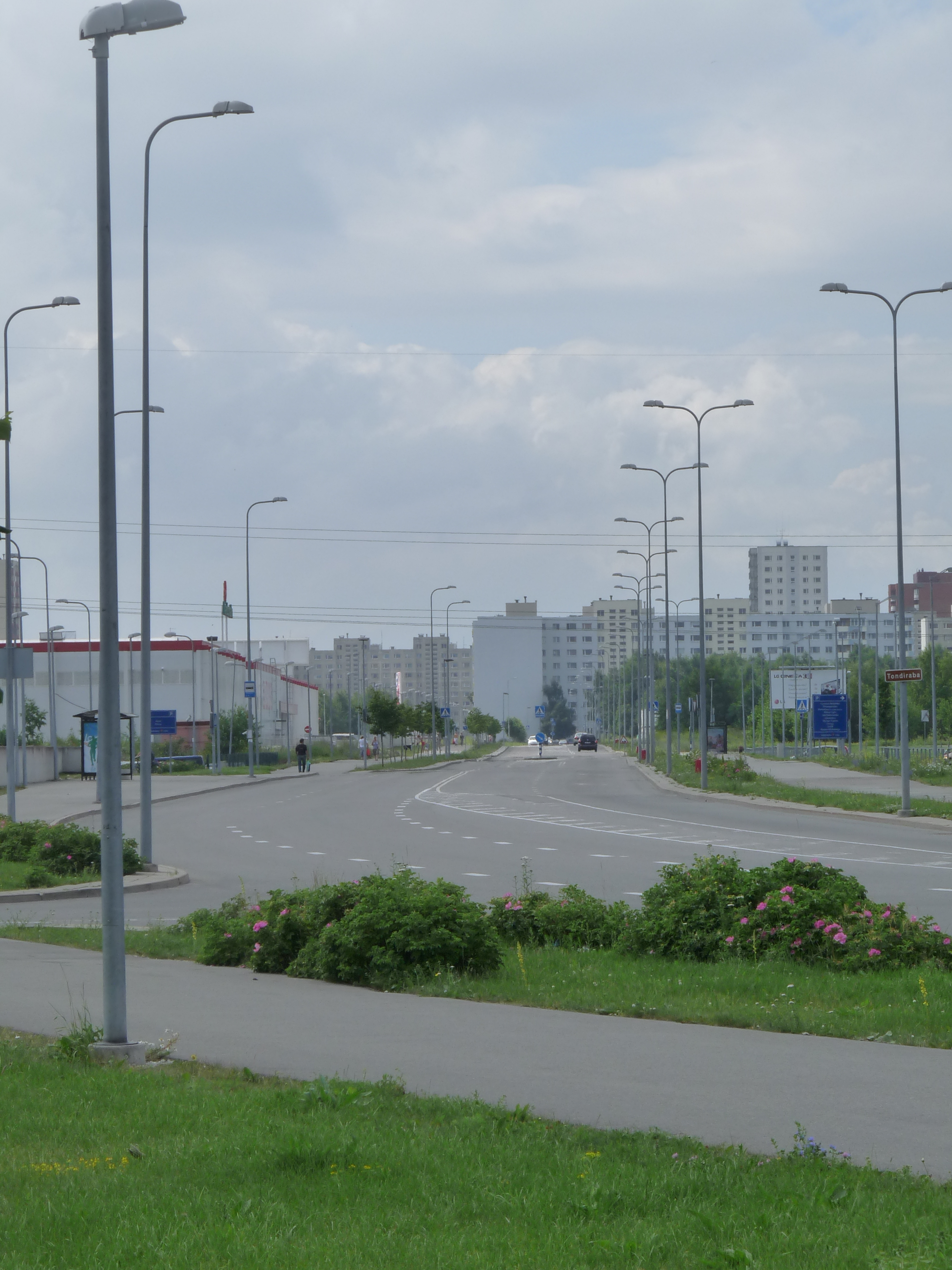 Tähesaju street in Tallinn, Estonia